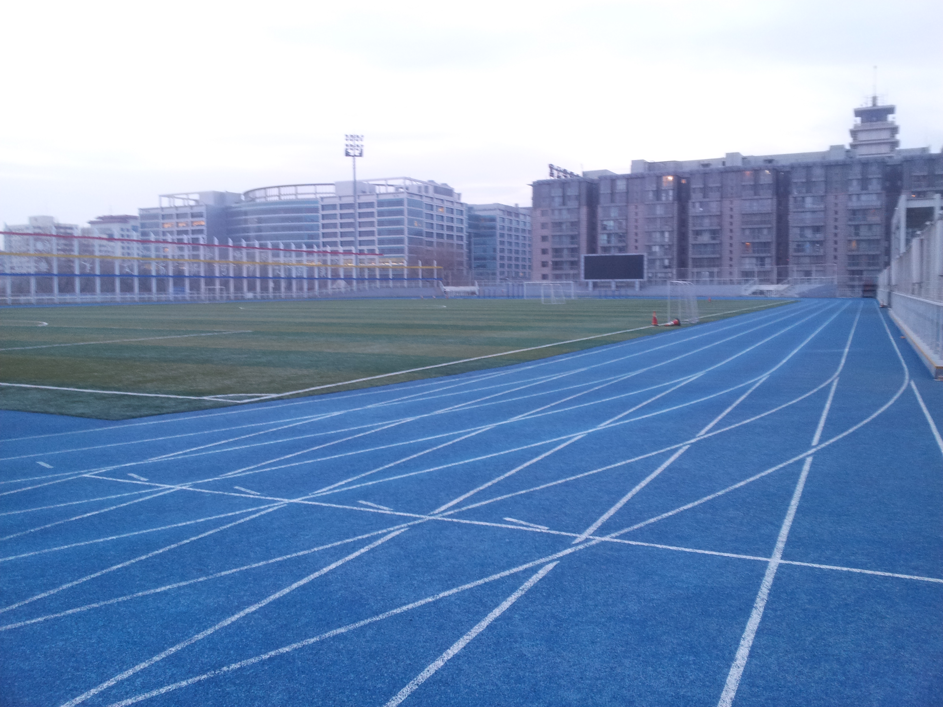 The playground of Beijing No.8 High school